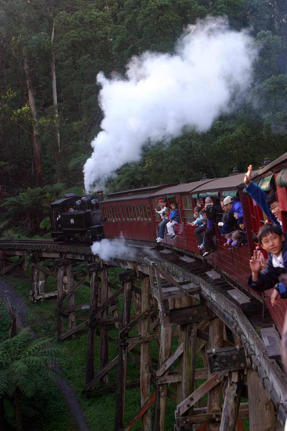 Puffing Billy in action on the 27th of July, 2003. Taken by myself with a Canon 10D and 16-35mm f/2.8L